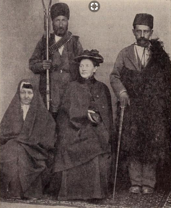 Grettie Y. Holliday, center, with her "itinerating party" (including translators), from a 1909 publication.